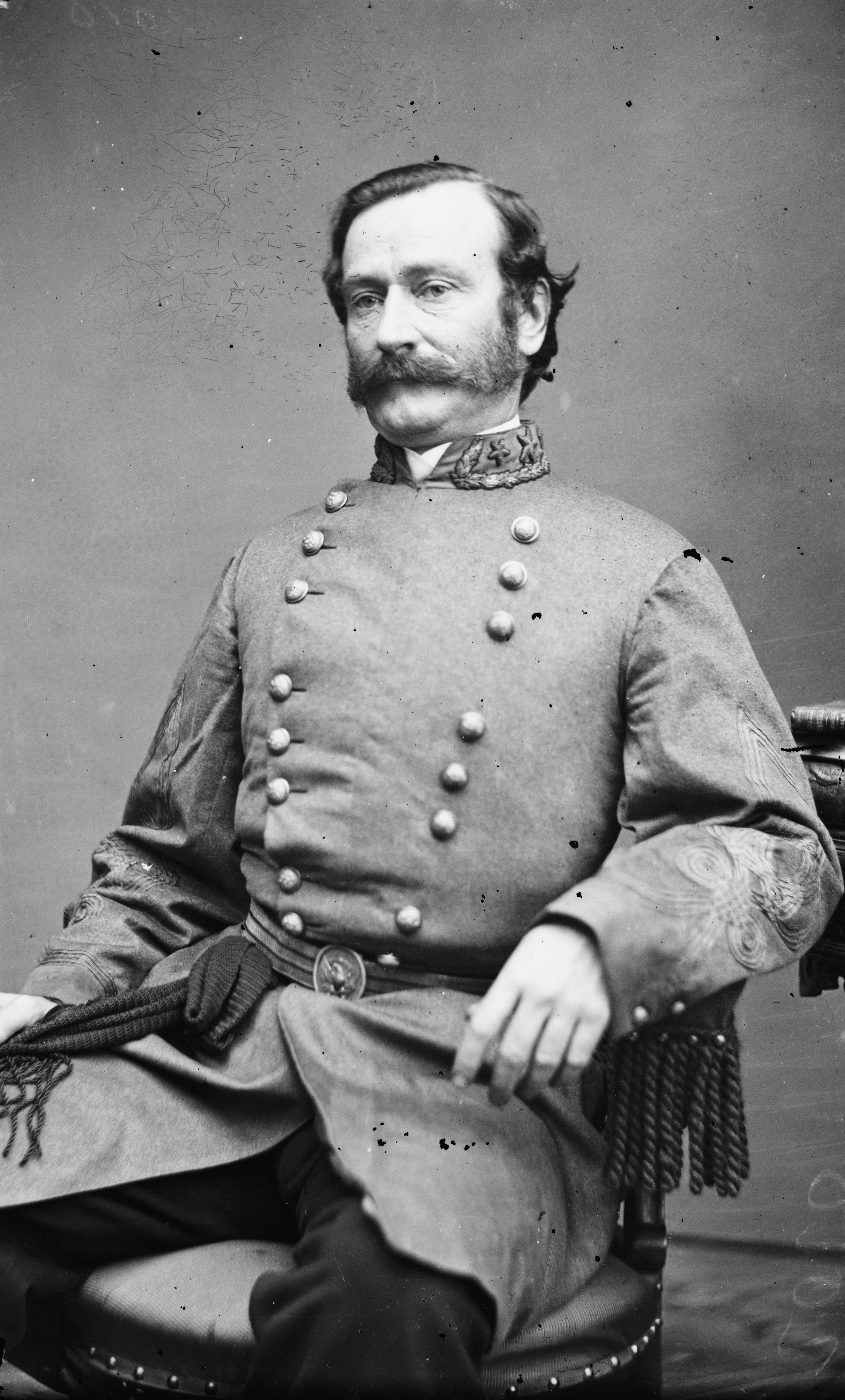 Title: Maj. Gen. Mansfield Lovell Physical description: 1 negative